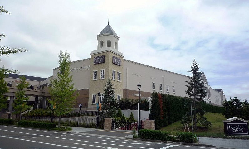 Sendai Izumi Premium Outlet